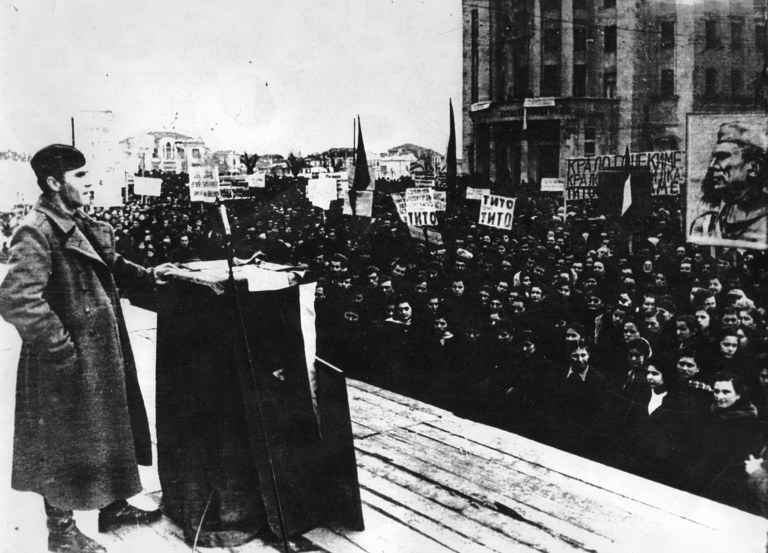 Series of photos taken after the liberation of Skopje, marches, rallies, speeches. 1945 This media file is produced by Wikipedian in Residence in Category:Wikipedian in Residence at DARM in 2016.